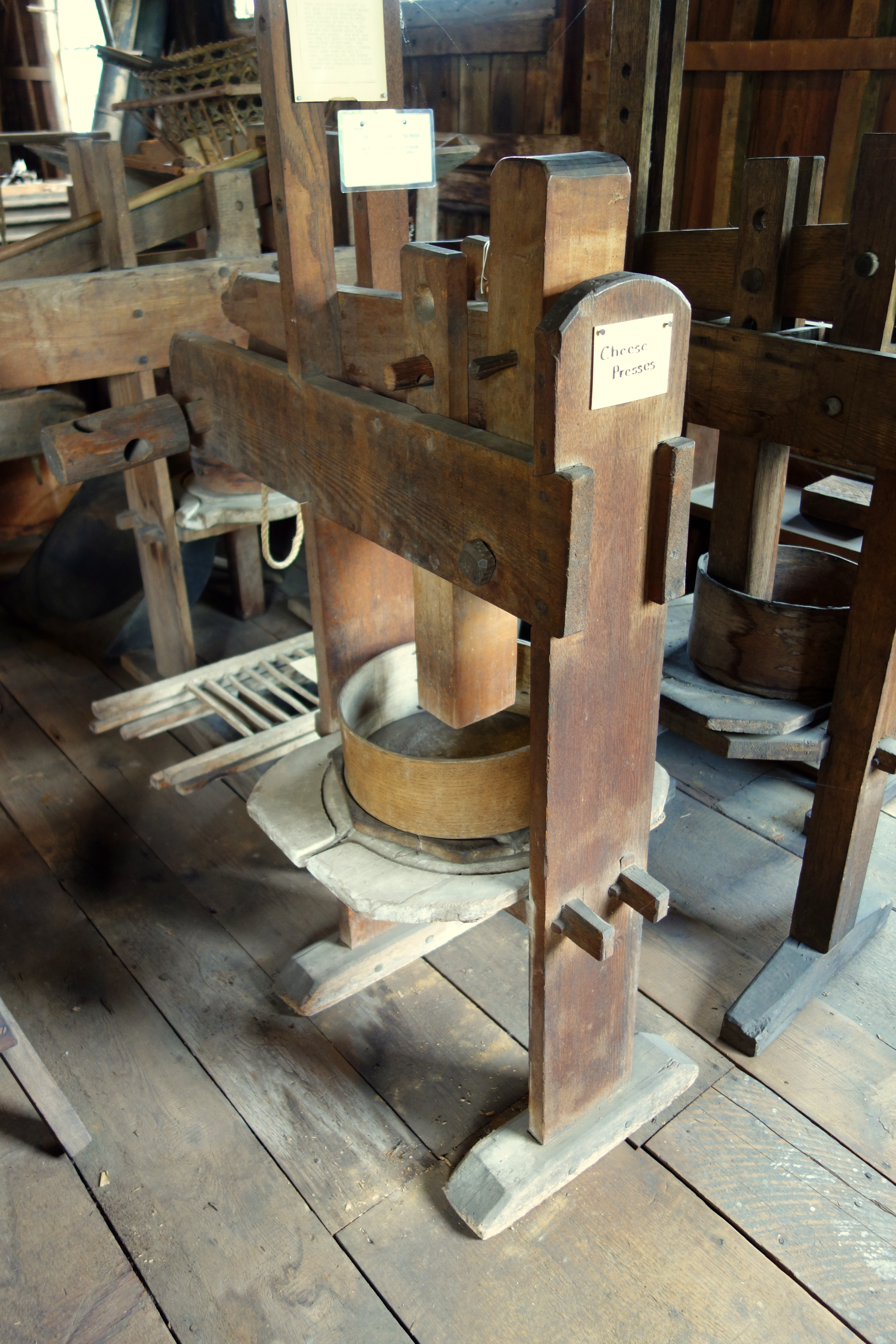 Exhibit in the Hadley Farm Museum, Hadley, Massachusetts, USA. The museum allowed photography without restriction.